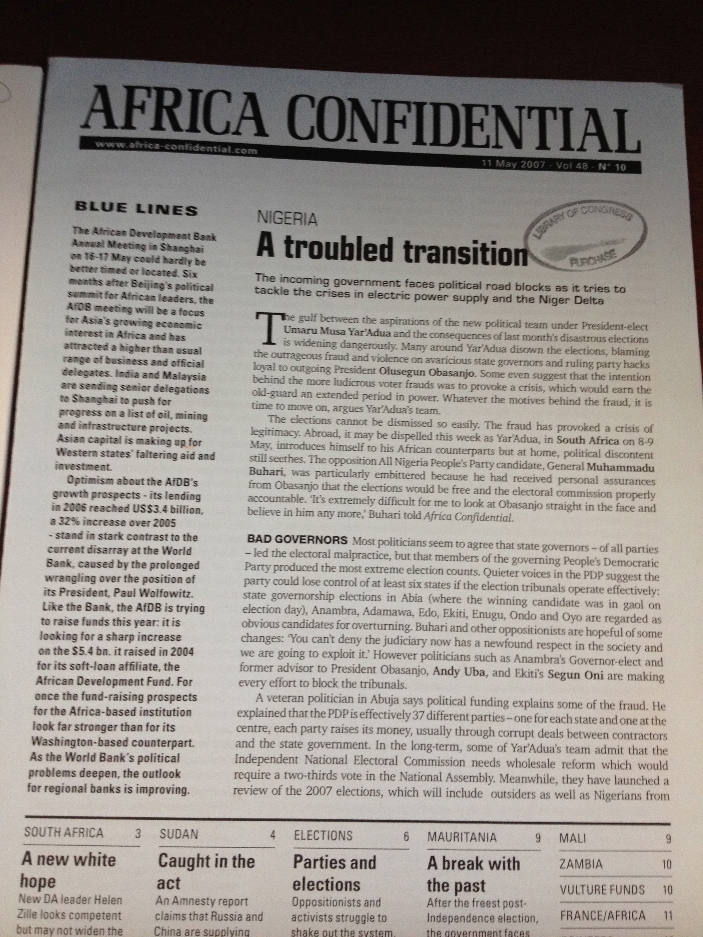 Useful reference books about Africa - Example13